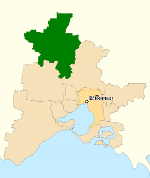 Incorporates or developed using Administrative Boundaries ©PSMA Australia Limited licensed by the Commonwealth of Australia under Creative Commons Attribution 4.0 International licence (CC BY 4.0). Derived from State and Territory Boundaries from the Australian Bureau of Statistics under Creative Commons Attribution 2.5 Australia license (CC BY 2.5 AU)